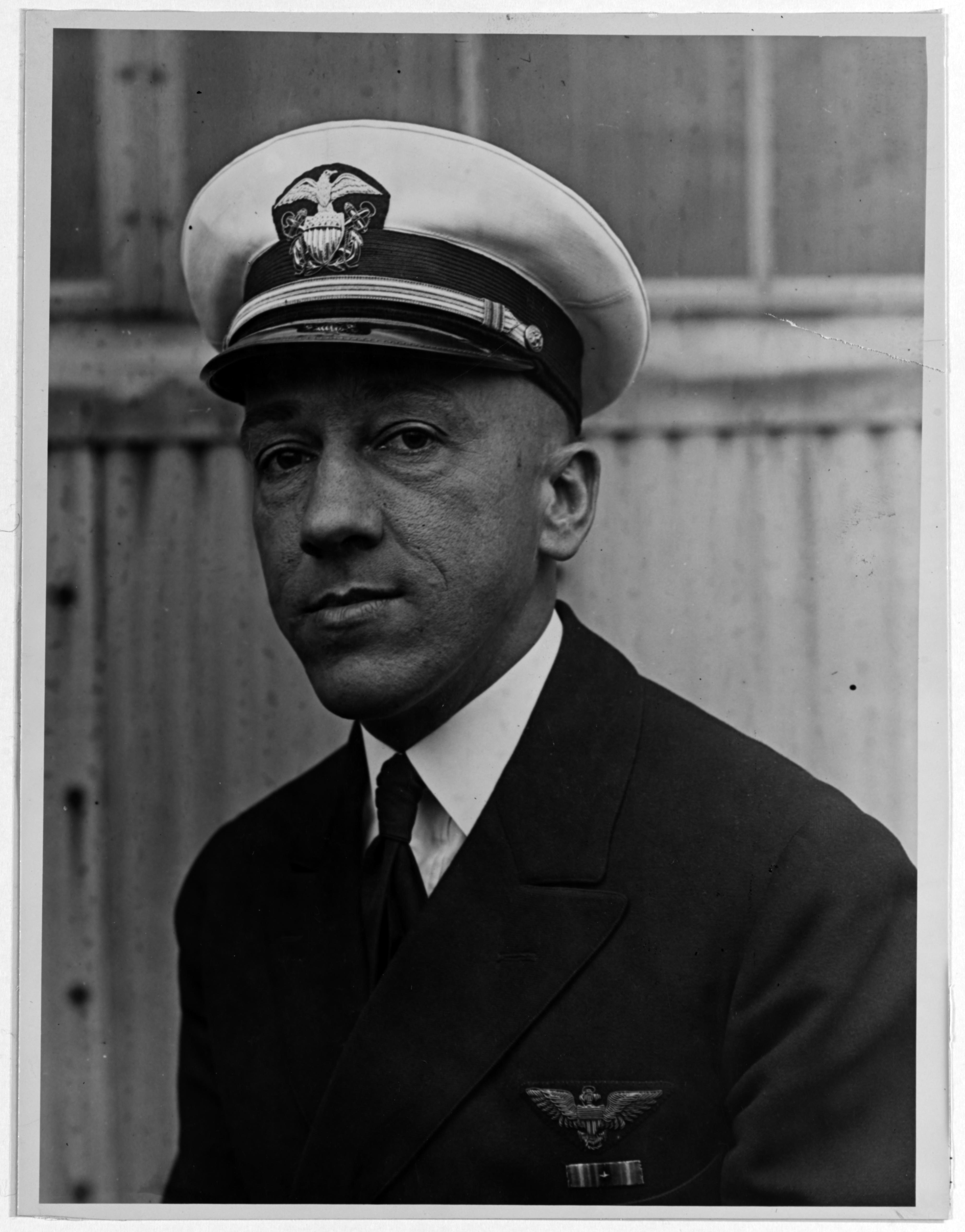 Photo of Lieutenant Thomas G. W. Settle, USN, taken in October, 1928, at Lakehurst Naval Air Station, New Jersey.